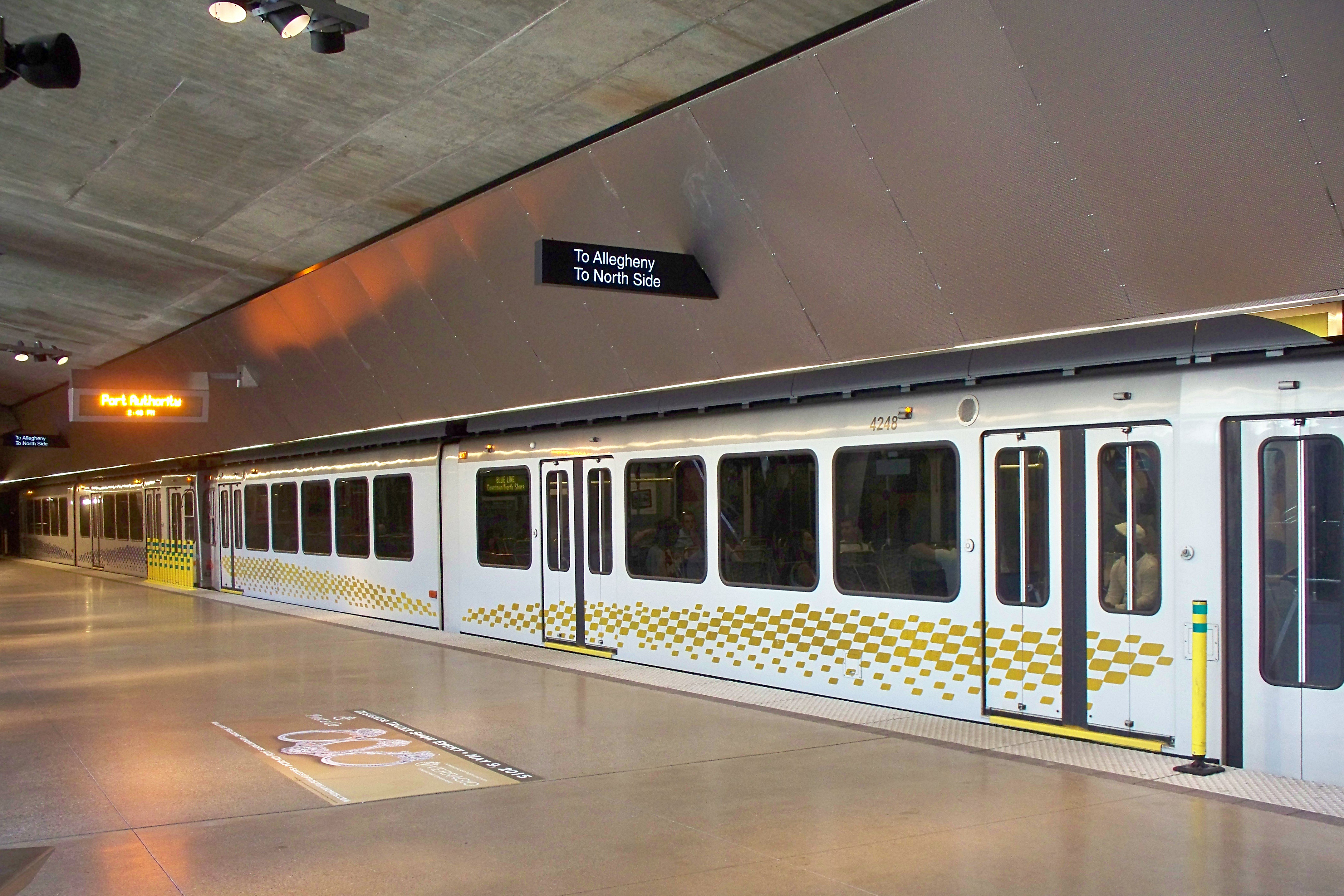 A train of two Siemens cars stops at Gateway station, bound for the North Side